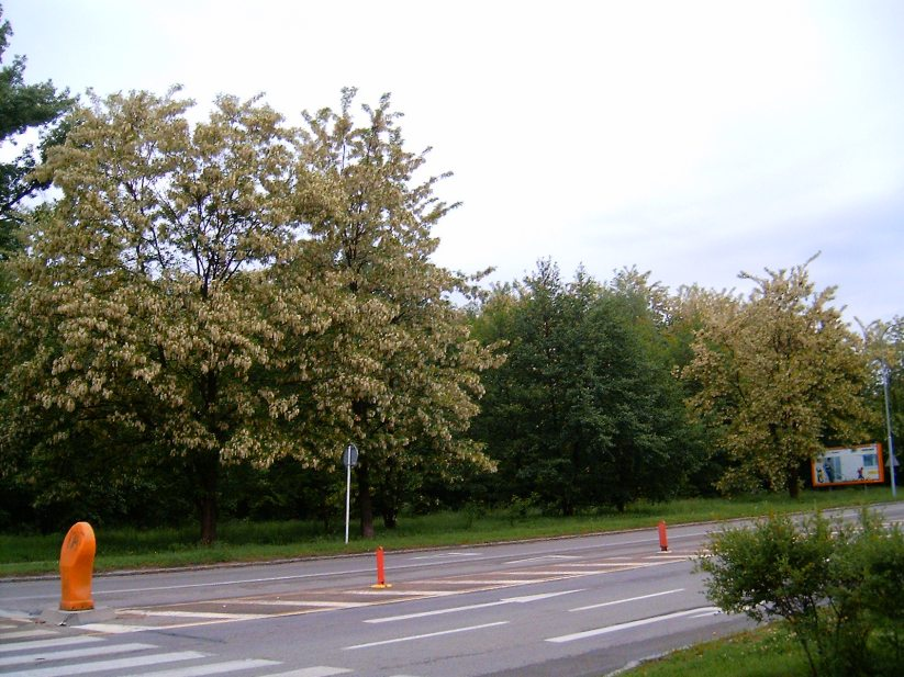 Brno Komín, robinia flowering